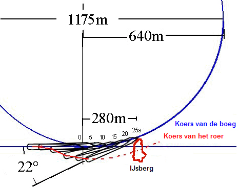 Dutch translated version of the German image (see below)